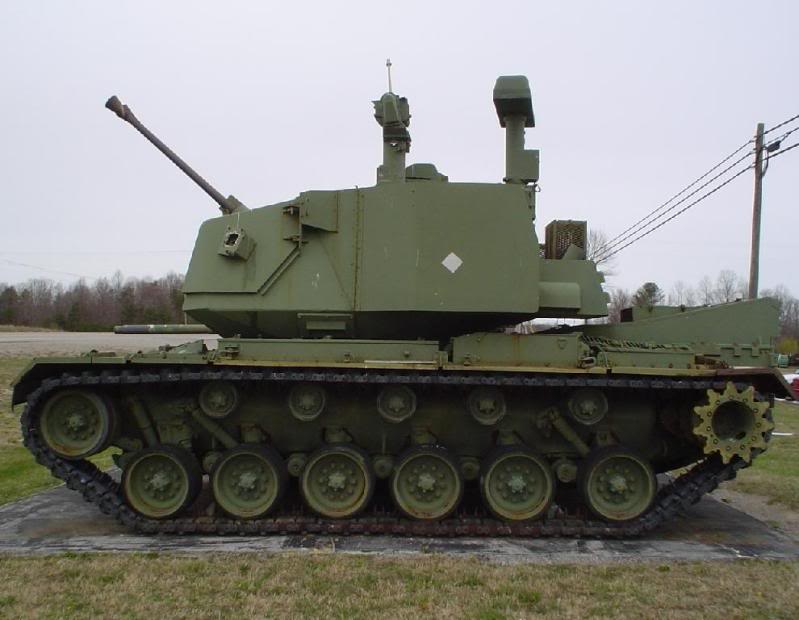 M247 Sgt York Division Air Defense Gun (DIVAD). A total failure. Based on rebuilt M48A5 tank chassis.